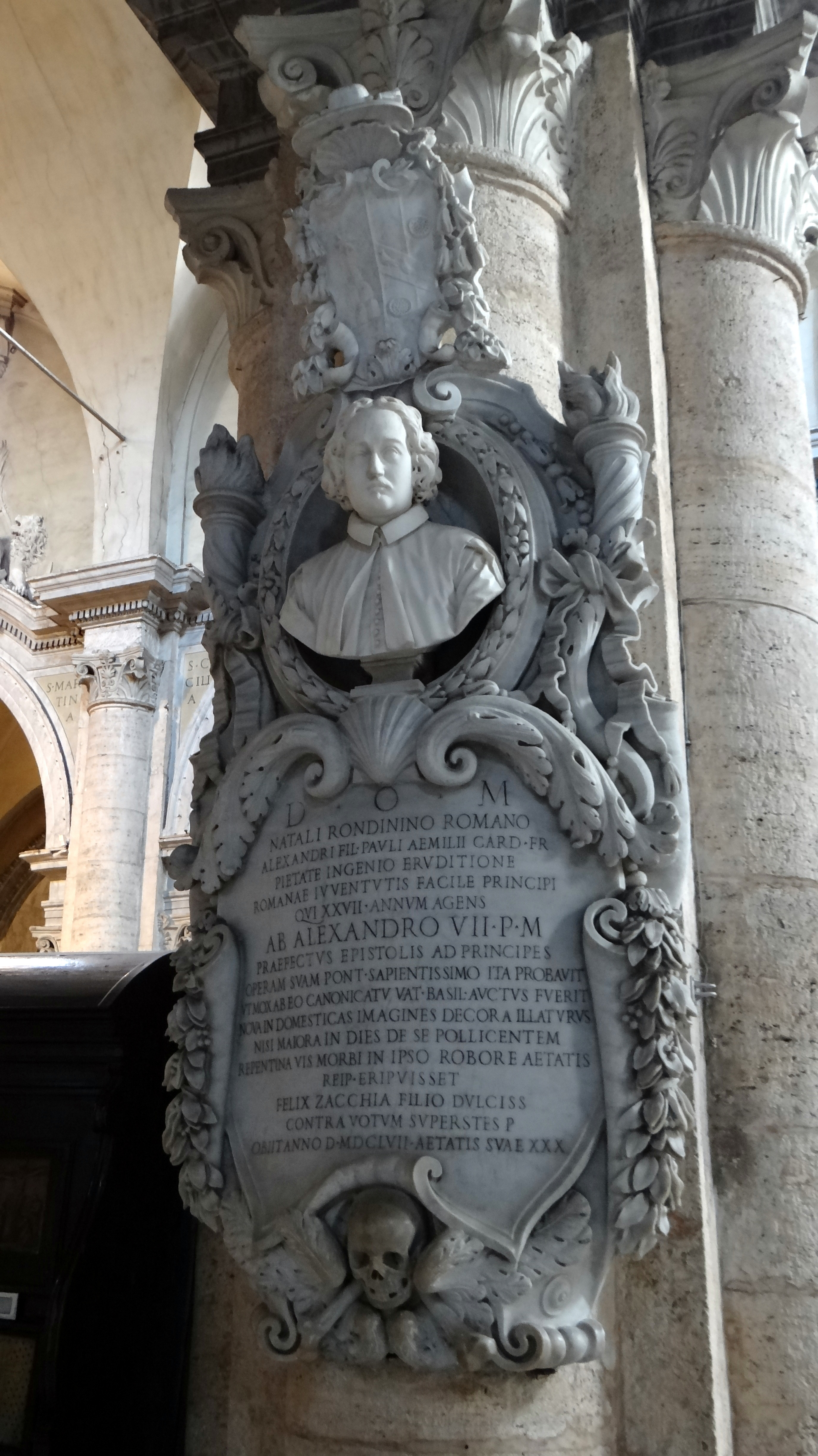 The funeral monument of Natale Rondinini, secretary of Pope Alexander VII in Santa Maria del Popolo, Rome. Work by Domenico Guidi (after 1657).